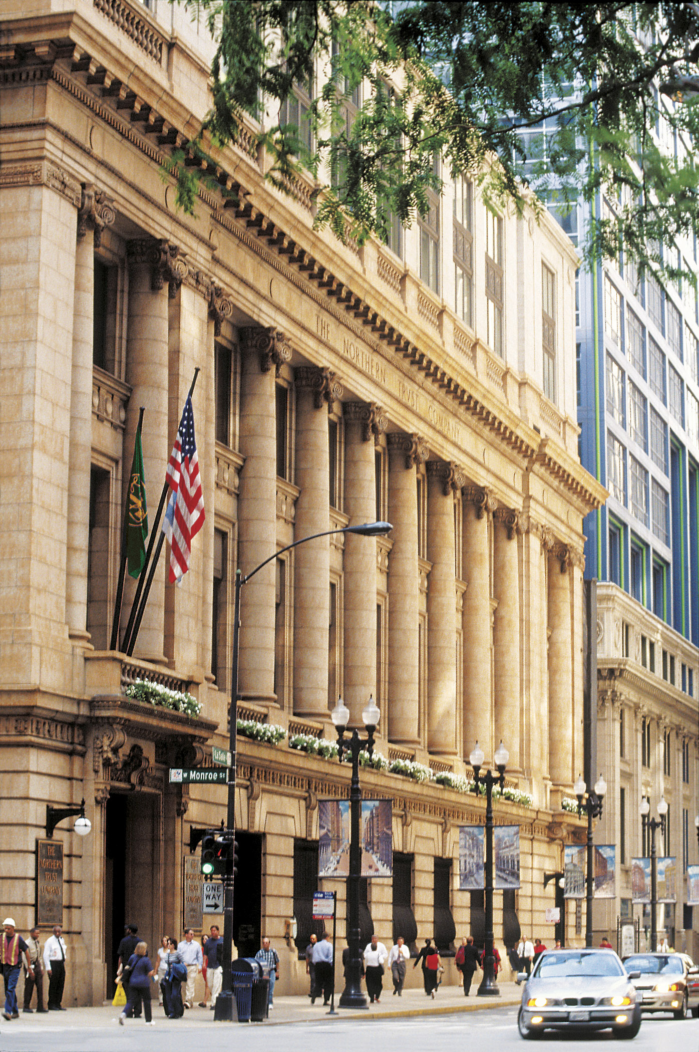 50 S. LaSalle Building, Chicago, IL